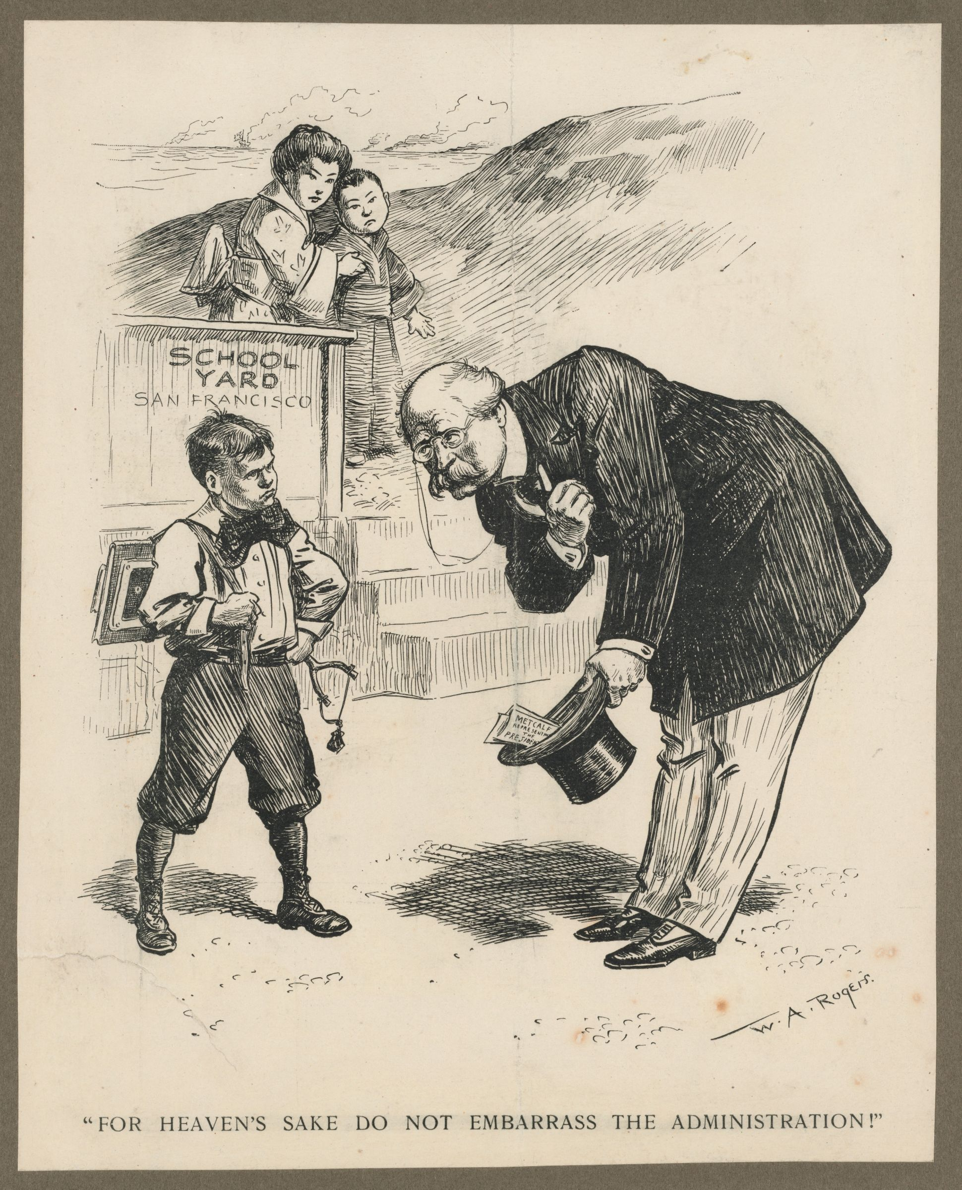 Political cartoon signed by W.A. Rogers relating to the October 1906 policy passed by the San Francisco School Board to segregate children of Japanese descent into a separate school. Archived issue